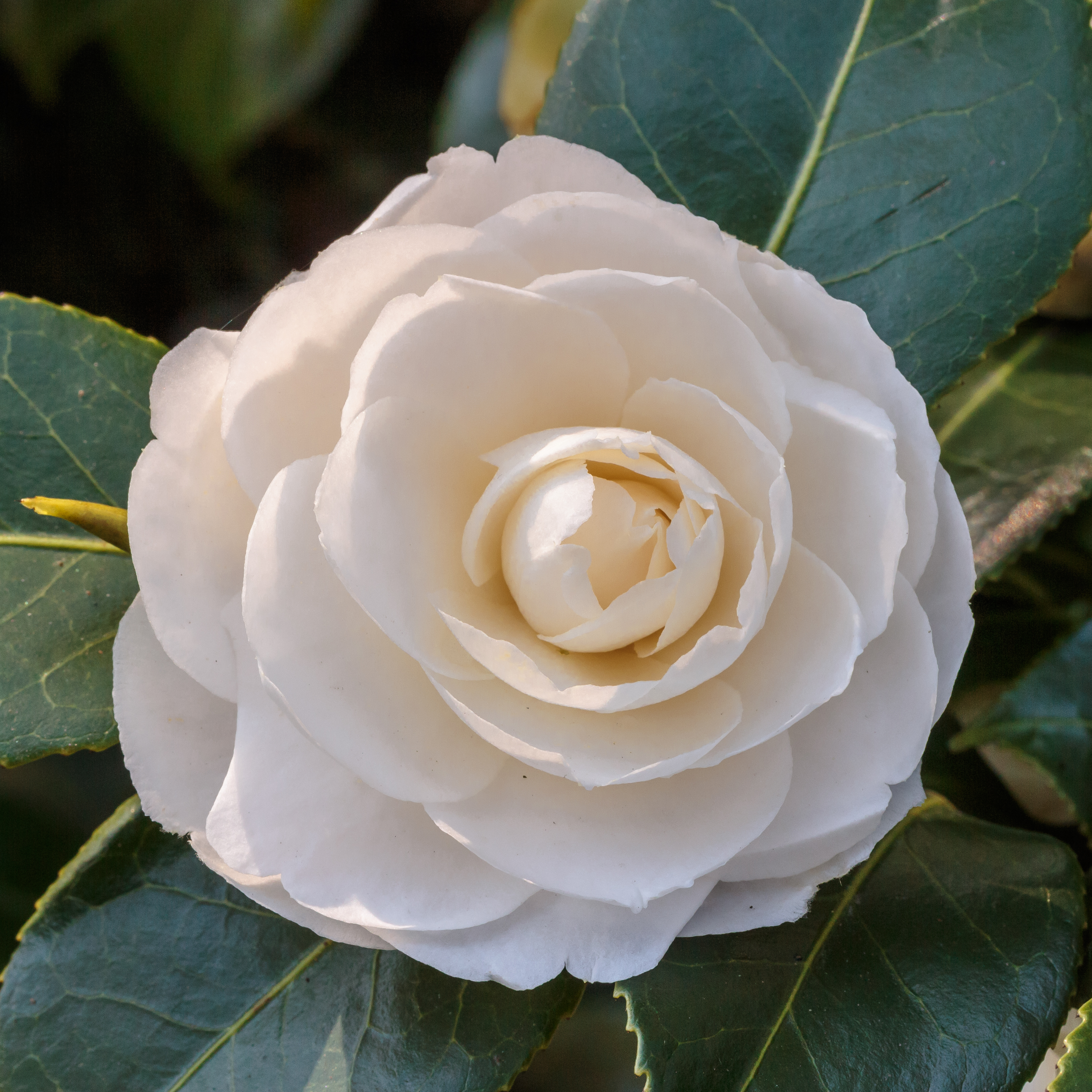 Delicate beauty of the Camellia × williamsii 'Jury's Yellow' flower. Location. Garden sanctuary JonkerValley.